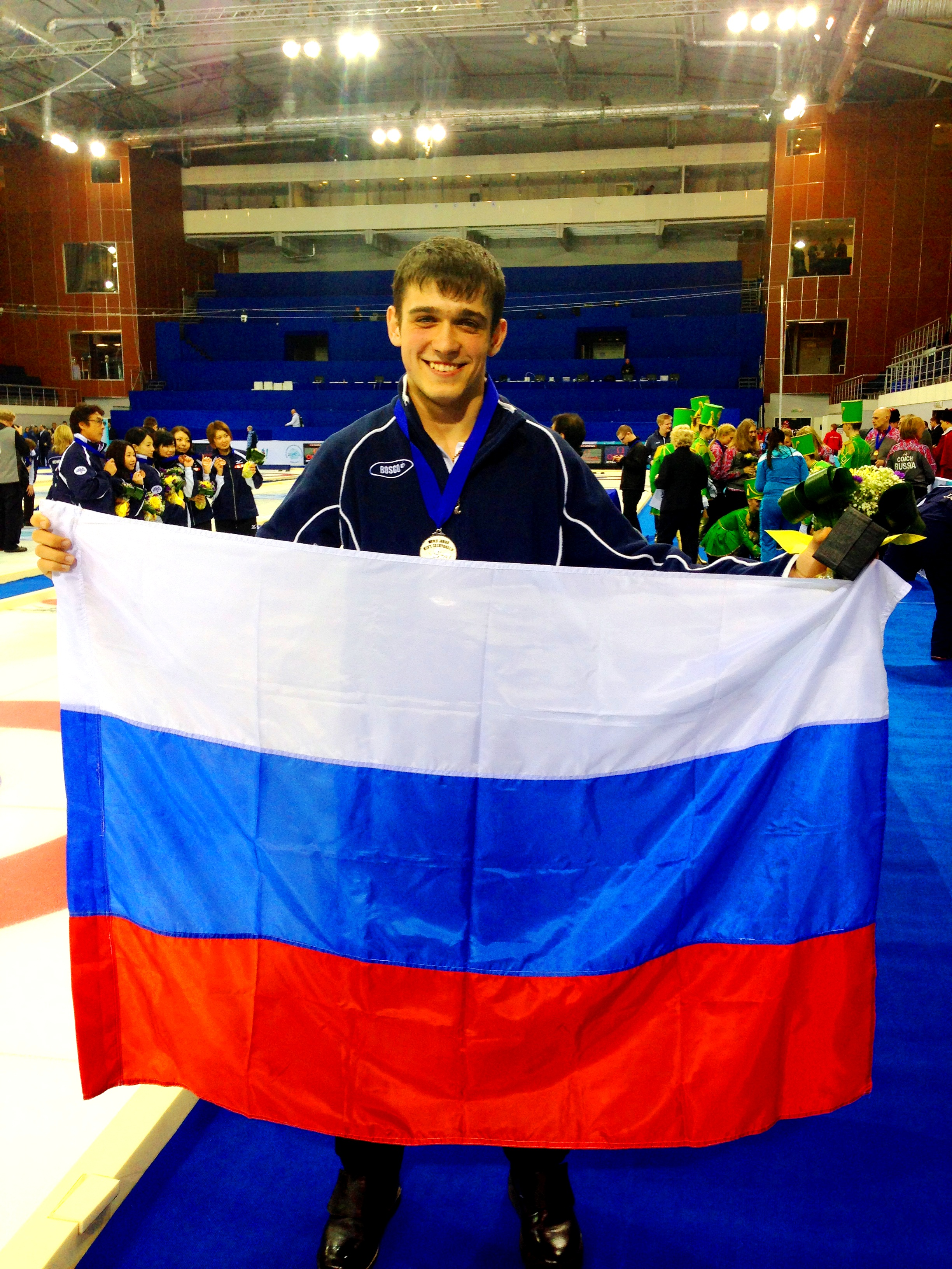 Timur Gadzhikhanov at the 2013 World Junior Curling Championships in Sochi.